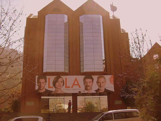 The southeast-facing facade of the corporate headquarters of Santiago-based TV station Canal 13, which is affiliated with the Pontifical Catholic University of Chile.